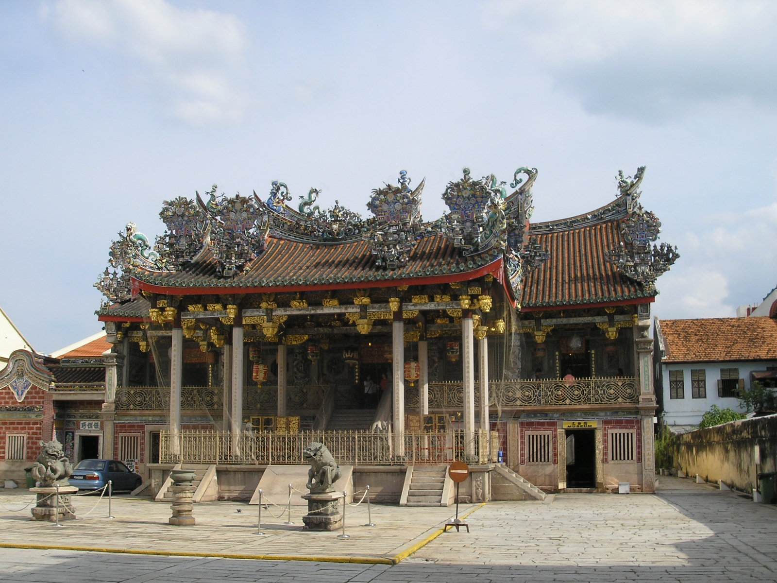 Image of the Leong San Tong Khoo Kongsi (also known as Khoo Kongsi Temple) in George Town, Penang.